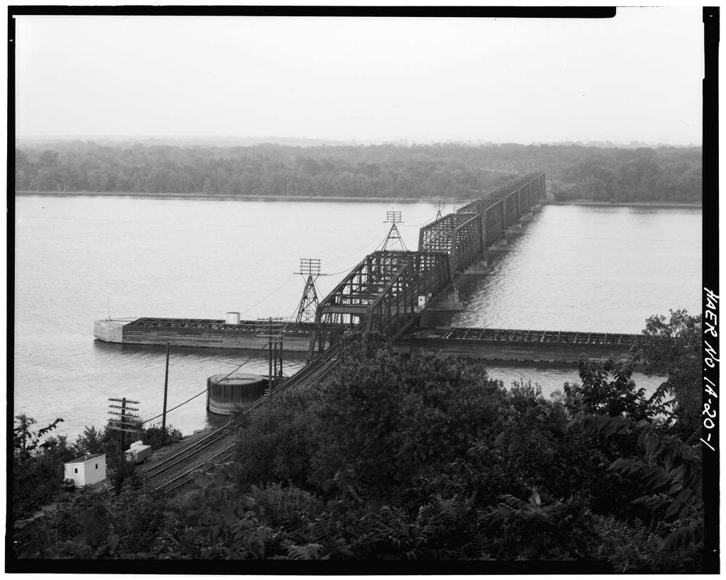 Burlington Rail Bridge, over the Mississippi River near Burlington, 1985. Summary This image was found at the Library of Congress HAER archive entry with the original caption: "1. OVERALL VIEW OF BRIDGE, PROTECTIVE PIER AND MISSISSIPPI RIVER. VIEW TO NORTHEAST. HAER IOWA,29-BURL,5-1" It is a part of the Historic American Engineering Record collection of photos. Image taken by Clayton B. Fraser, Fraserdesign, August 1985. Note found on caption page These photographs are Government material and are not subject to copyright. However, the courtesy of a credit line identifying the Historic American Engineering Record and the photographer would be appreciated. Burlington Rail Bridge